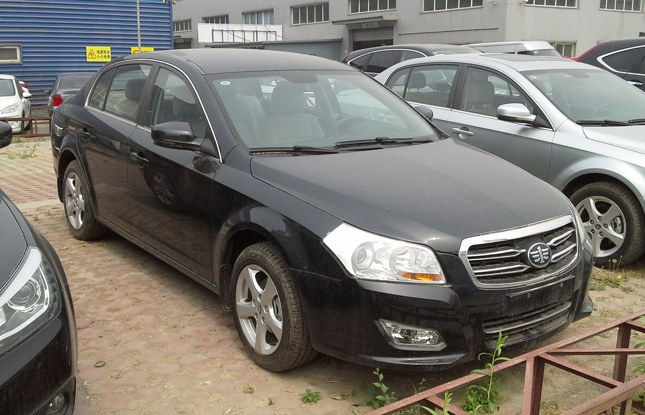 Besturn B70 facelift photographed in Beijing, China.